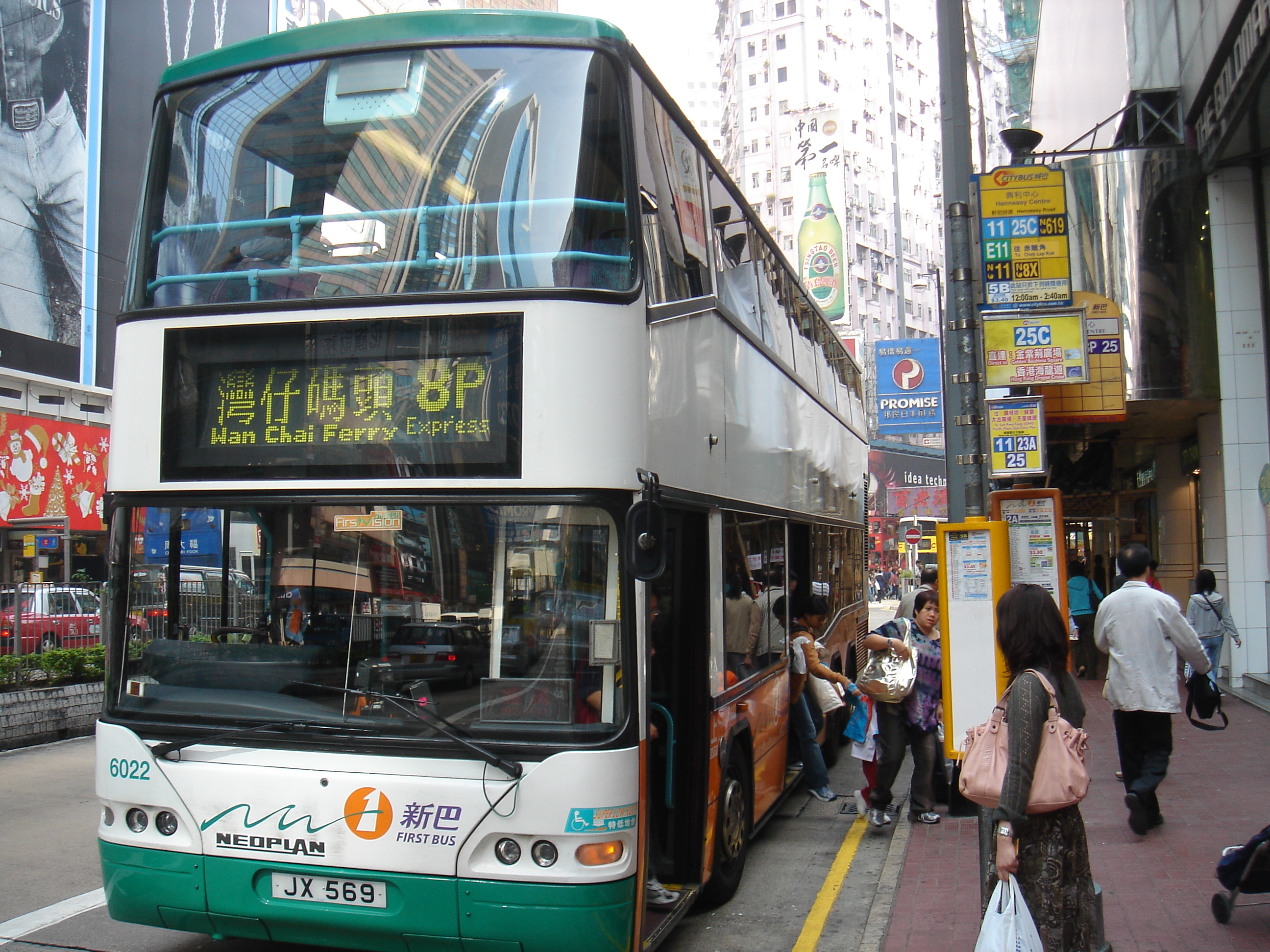 New World First Bus Neoplan Centroliner on Hennessy Road, Causeway Bay, Hong Kong.